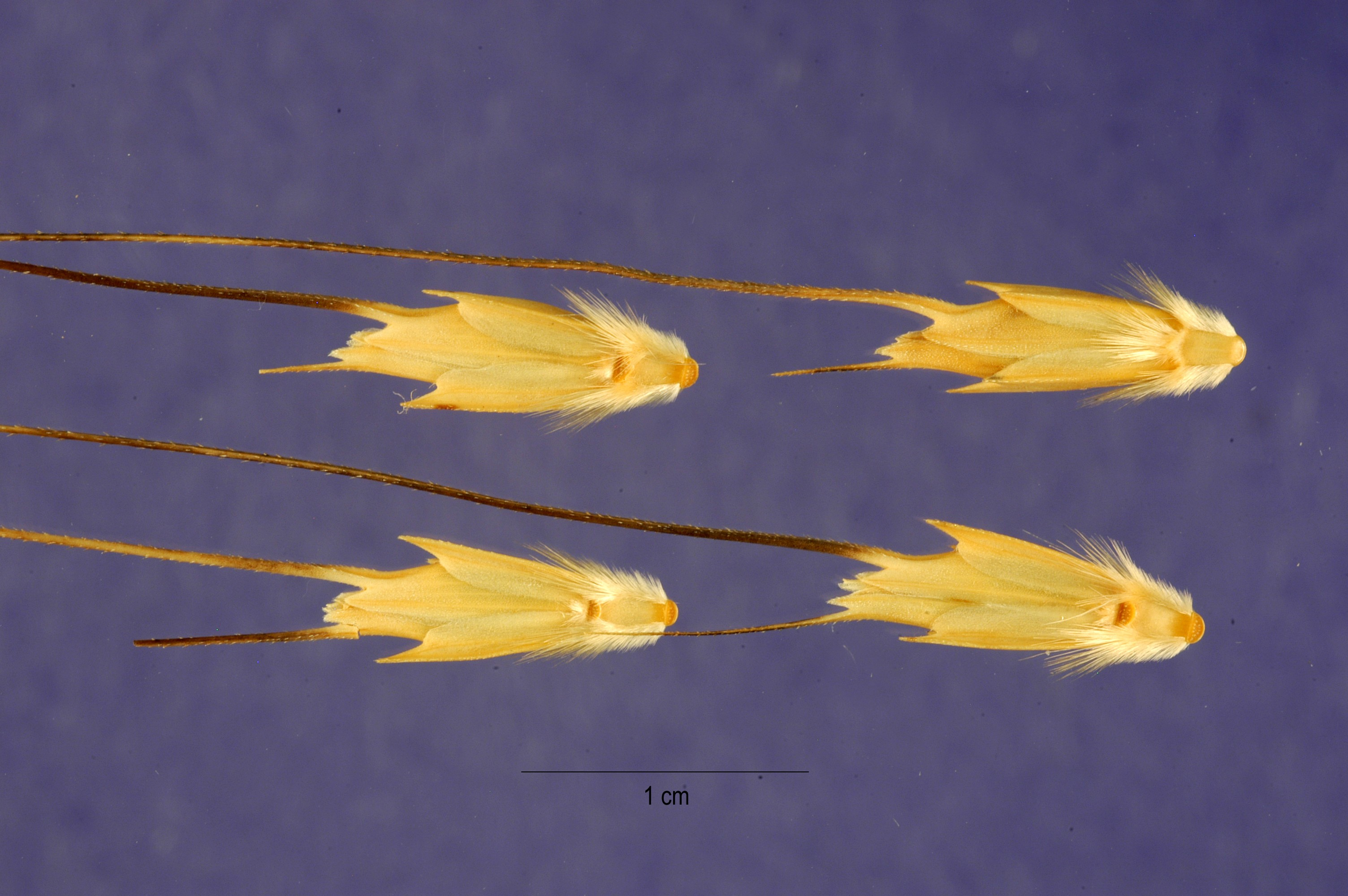 Aegilops bicornis (Forssk.) Jaub. & Spach - goatgrass - AEBI